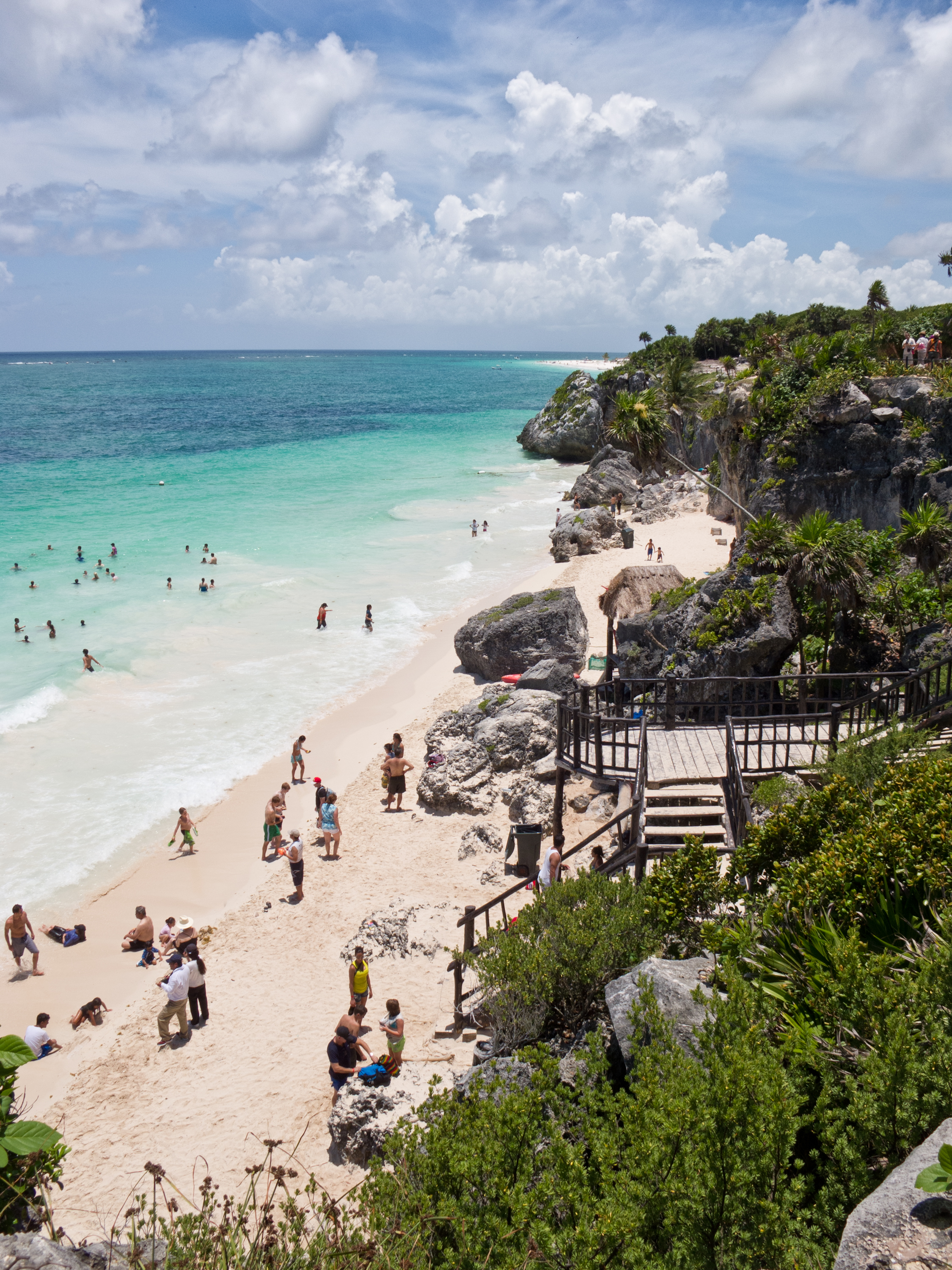 Tulum, Quintana Roo, Mexico.